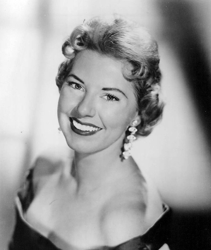 Photo of vocalist Beverly Bower.